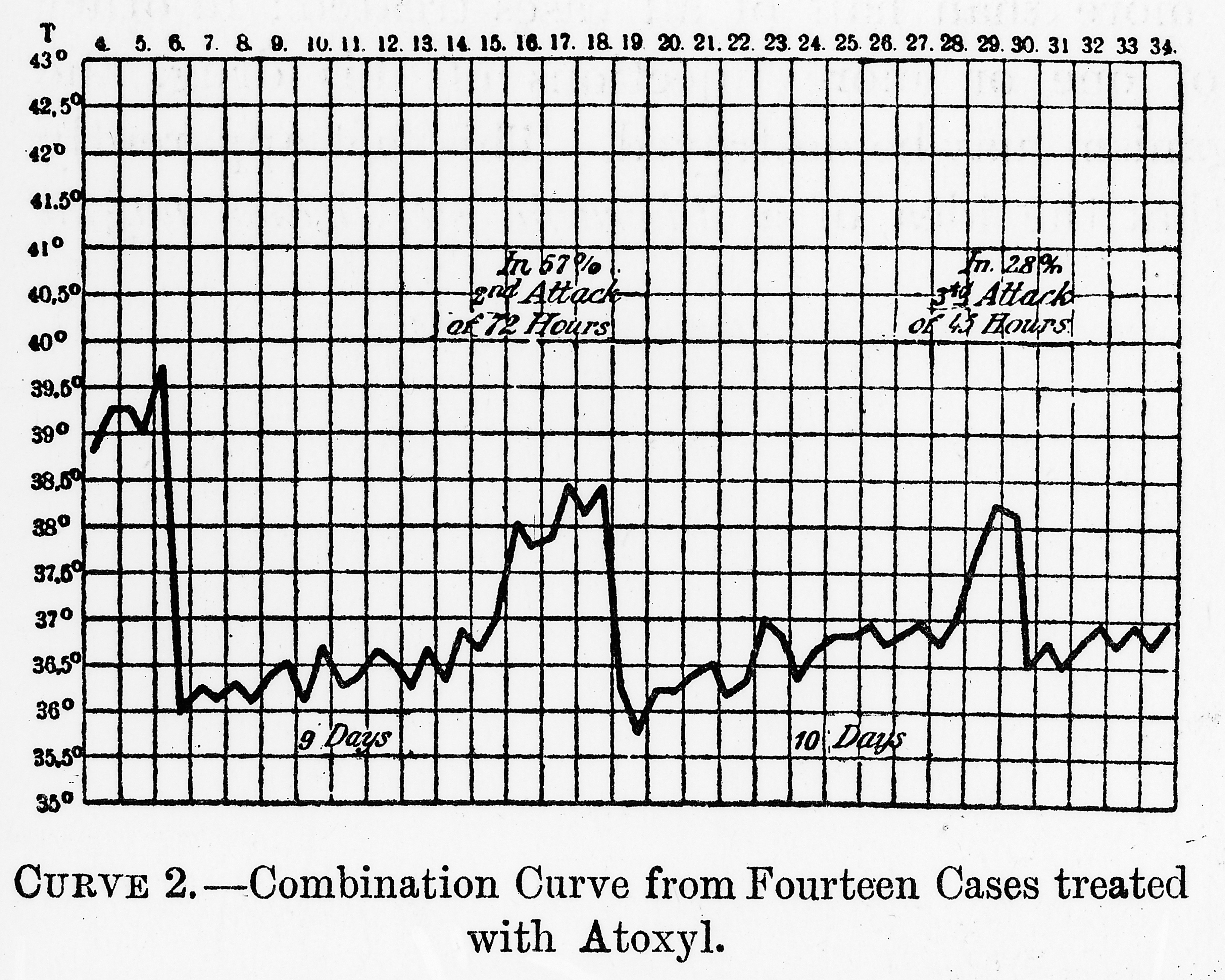 Relapsing fever: temperature curves of cases treated symptomatically - composite curve based on thirty cases General Collections Keywords: Arsenic; Therapeutics; Syphilis